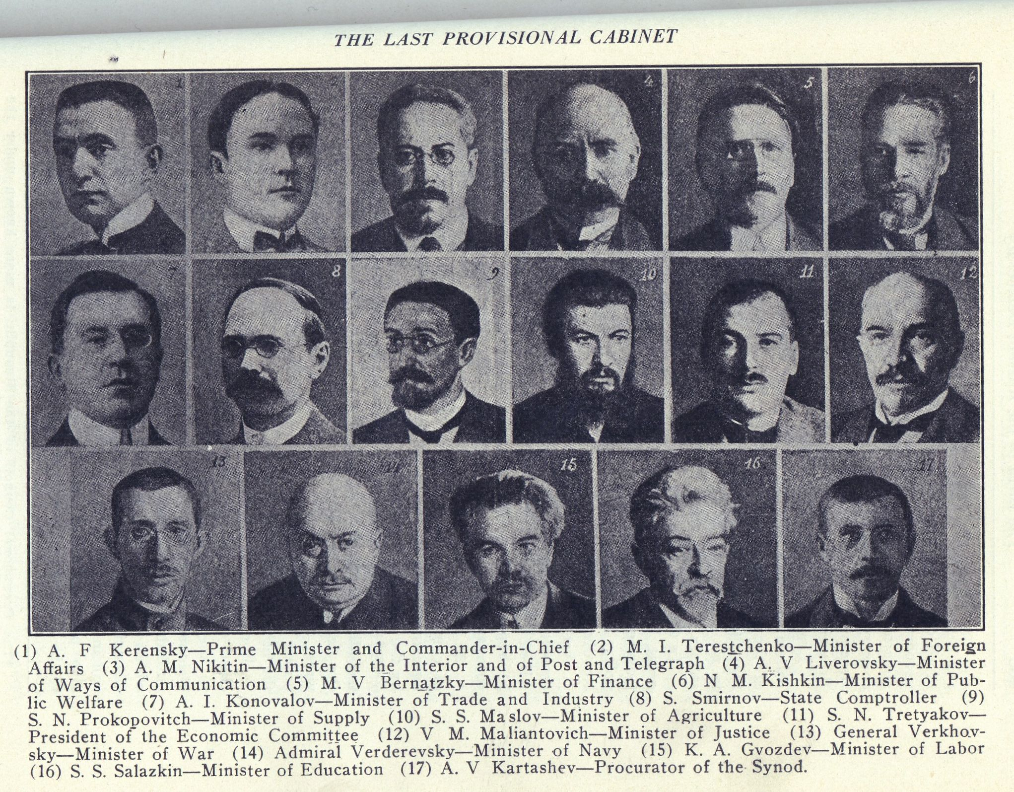 Photo of the members of Third (the last one) Provisional Government of Russia (8th of October - 7th of November 1917).